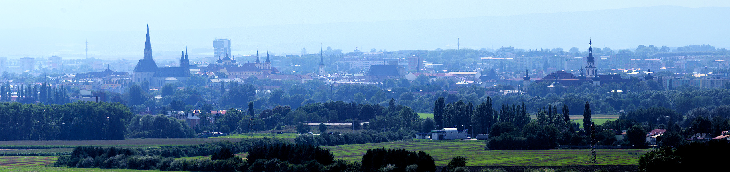 Panorama of Olomouc city (Czech Republic) from northeast. Shot from Tovéř village 7 kilometers far away. Photo by Roman Nepšinský